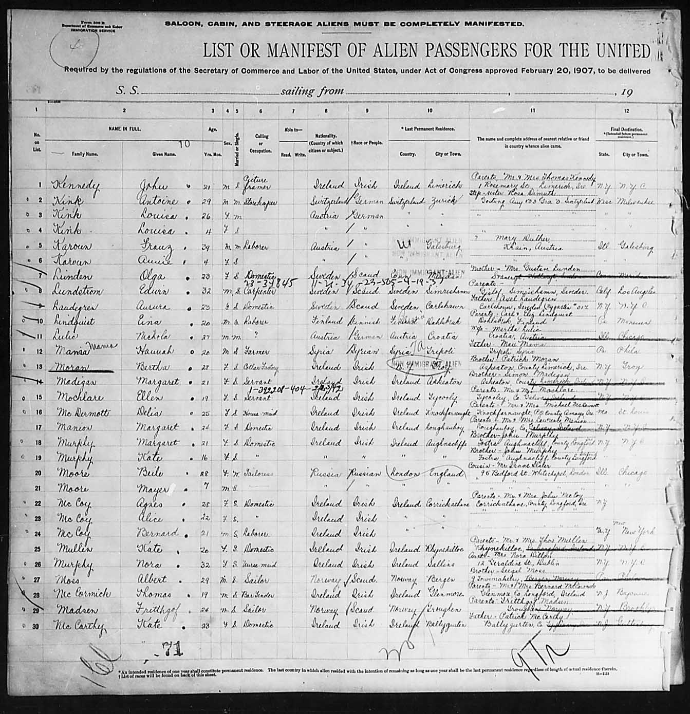 PAGE146A, List or Manifest of Alien Passengers for the United States I. List or Manifest of Alien Passengers for the United States Immigration Officer at Port of Arrival, R.M.S. CARPATHIA. Although the Carpathia returned to New York on April 18, 1912, the list of survivors is filed with manifests dated two months later. It can be found on NARA microfilm publication T715, "Passenger and Crew Lists of Vessels Arriving at New York, 1897-1957," roll 1883 (INS Volume 4183). Passenger and Crew Lists of Vessels Arriving at New York, New York, 1897-1957.